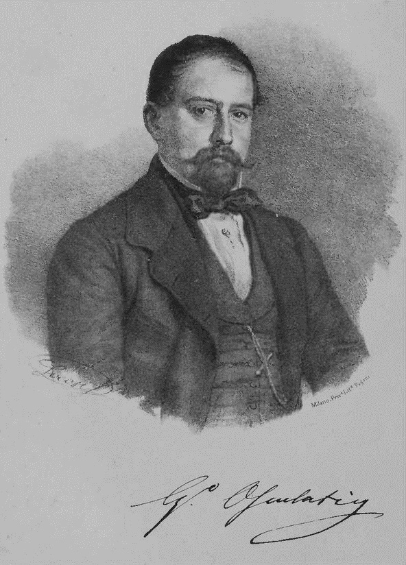 Portrait of Gaetano Osculati